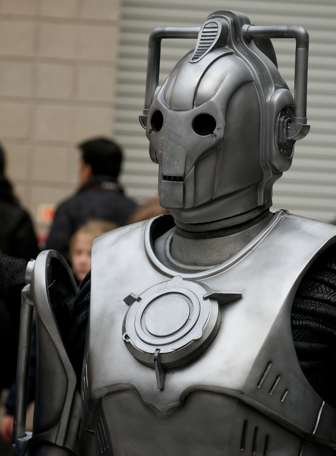 Doctor Who 50th Celebration - Cyberman Doctor Who Experience